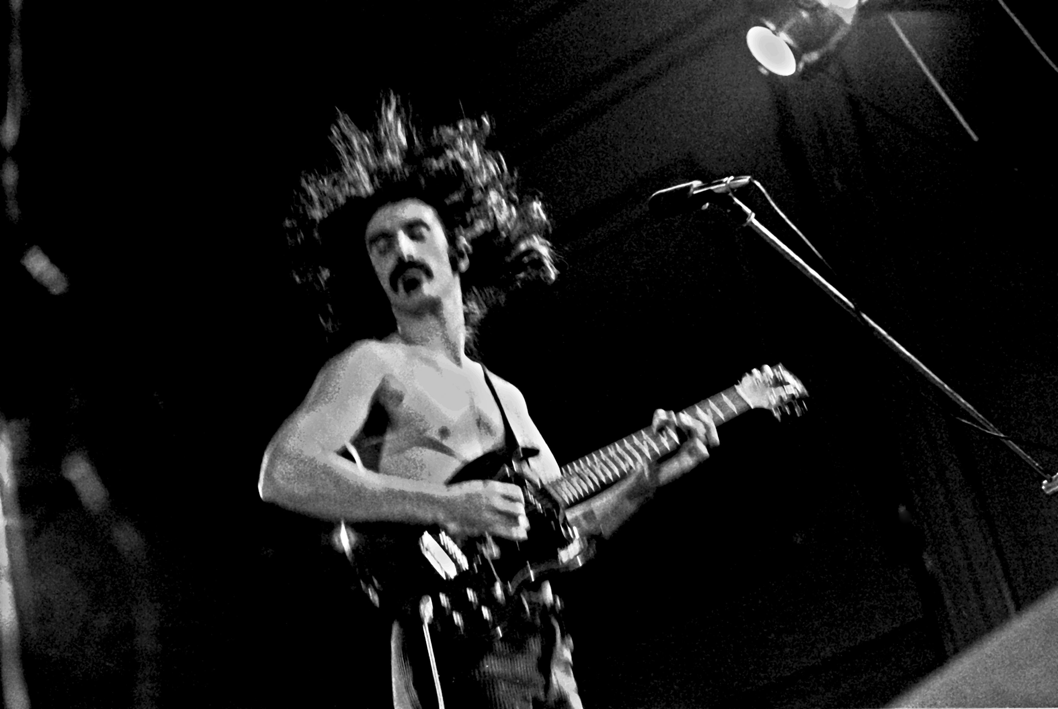 Frank Zappa & The Mothers Of Invention, December 1971, Musikhalle Hamburg